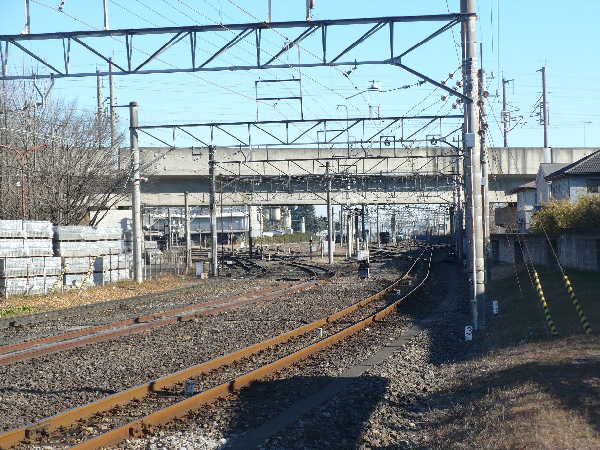 Mikajiri Station of Chichibu Railway, in Kumagaya, Saitama, Japan. The photo was taken from the level crossing near the station, looking northward. The bridge over the tracks is the Joetsu Shinkansen.